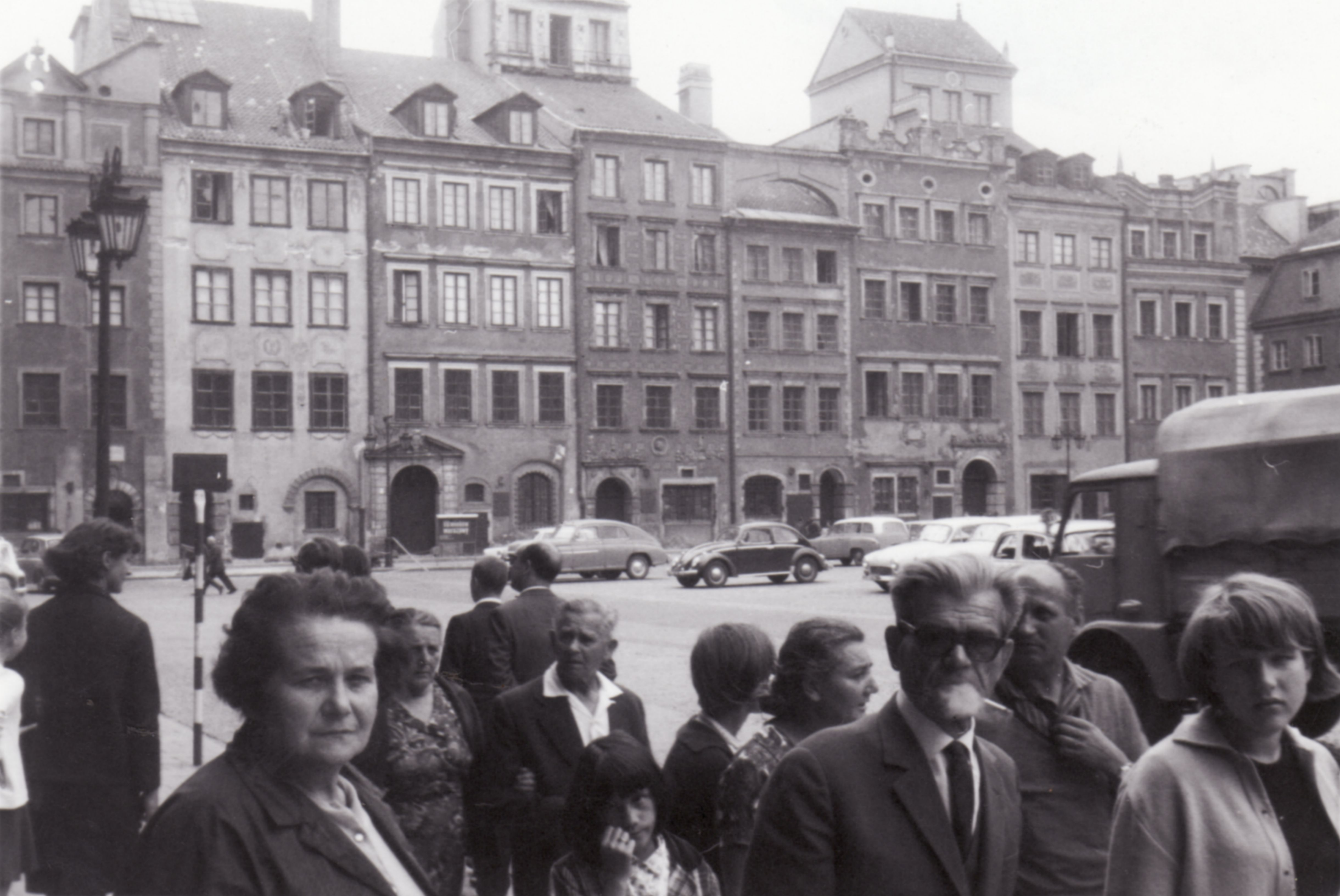 Just rebuild Market Square in "Old" Town in Warsaw